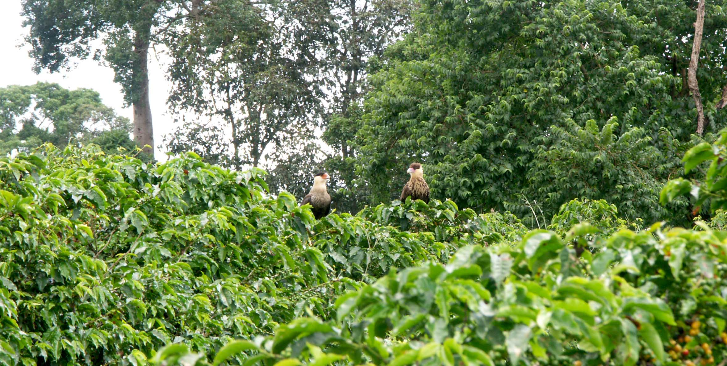 Birds of prey, Monte Santo de minas, Brazil